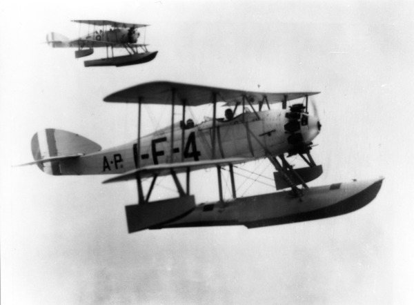 PictionID:40957297 - Catalog:Array - Title:Array - Filename:16_000313 Vought FU Peru.tif - Ray Wagner was Archivist at the San Diego Air and Space Museum for several years and is an author of several books on aviation --- ---Please Tag these images so that the information can be permanently stored with the digital file.---Repository: San Diego Air and Space Museum